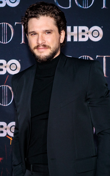 Kit Harrington at the Game of Thrones Season 8 World Premiere at Radio City Music Hall, April 3, 2019. Photo by Sachyn Mital.